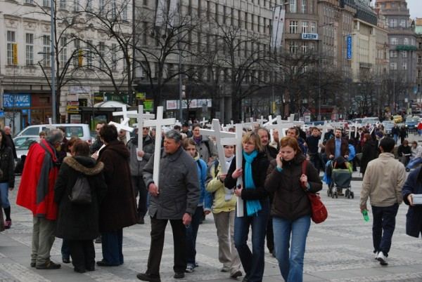 March for Life, 28. 3. 2009, Prag